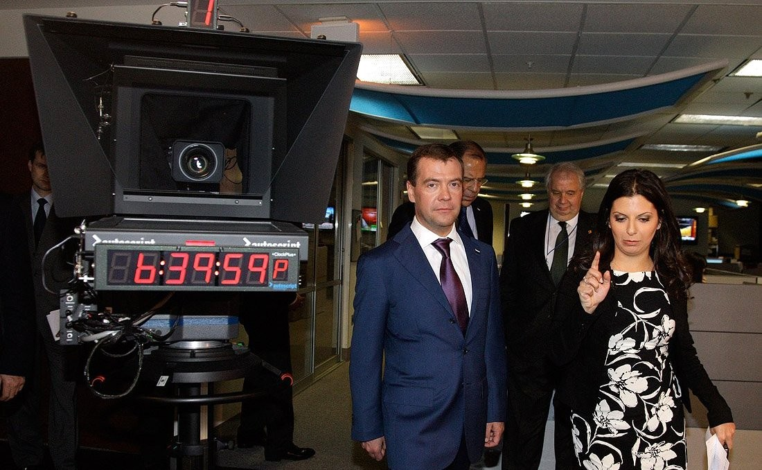 Visiting the Russia Today television channel’s offices. With Editor-in-Chief of Russia Today Margarita Simonyan.